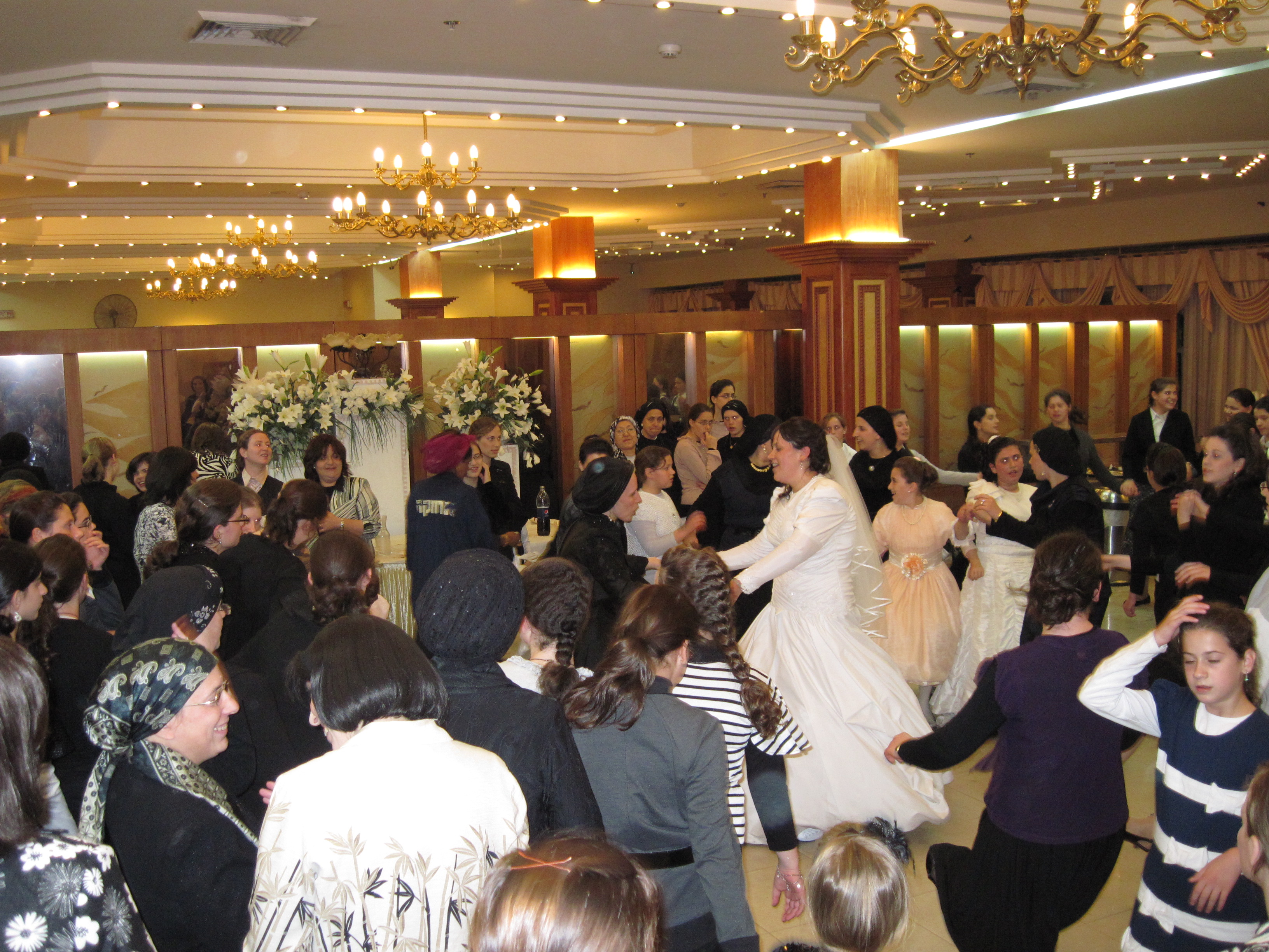 Haredi Jewish wedding at Armonot Wolf (Wolf Palaces), Beit Hadfus Street, Givat Shaul, Jerusalem